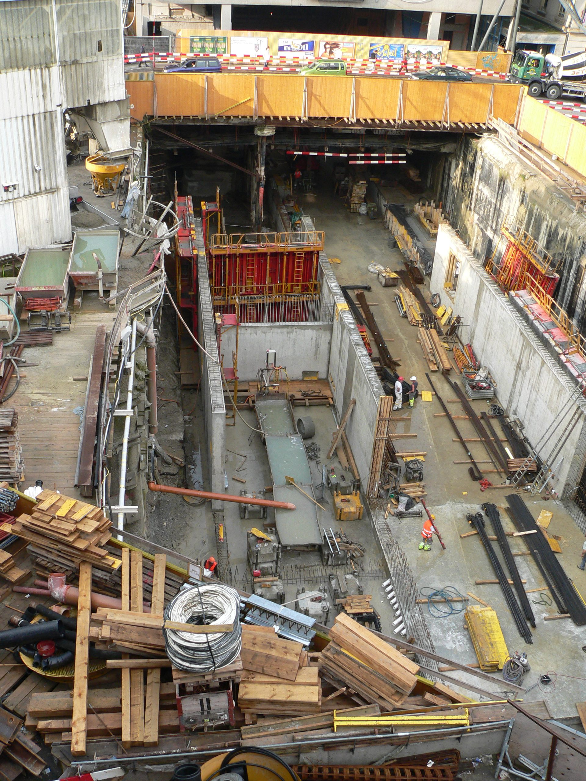 m2 metro line begin built in Lausanne